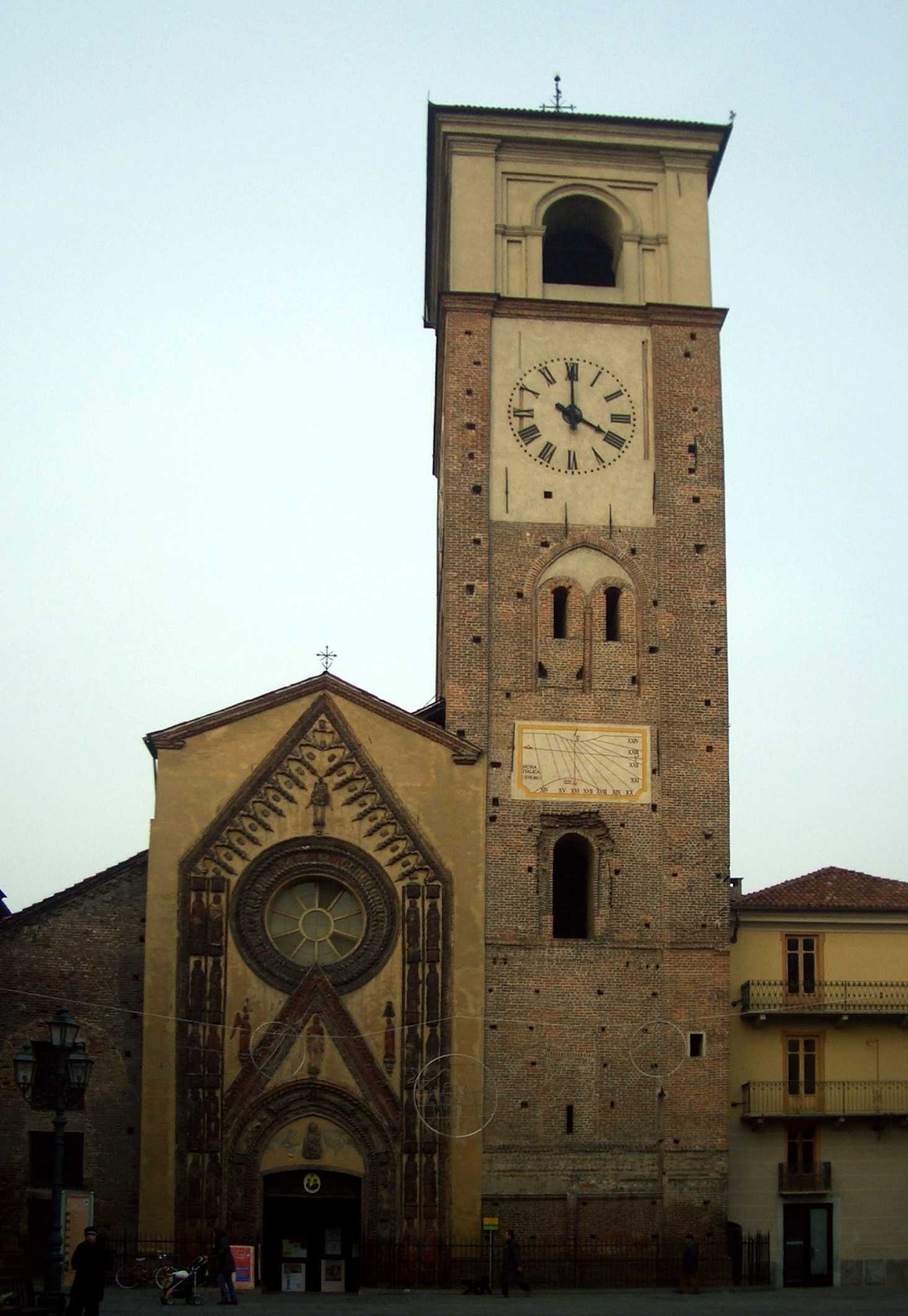 Cathedral , Chivasso, Turin, Italy